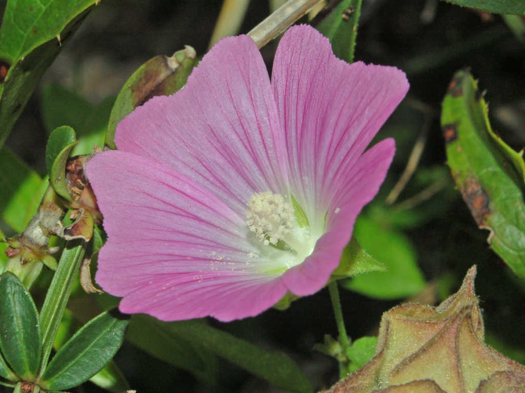 Lavatera punctata - Genova, Italy